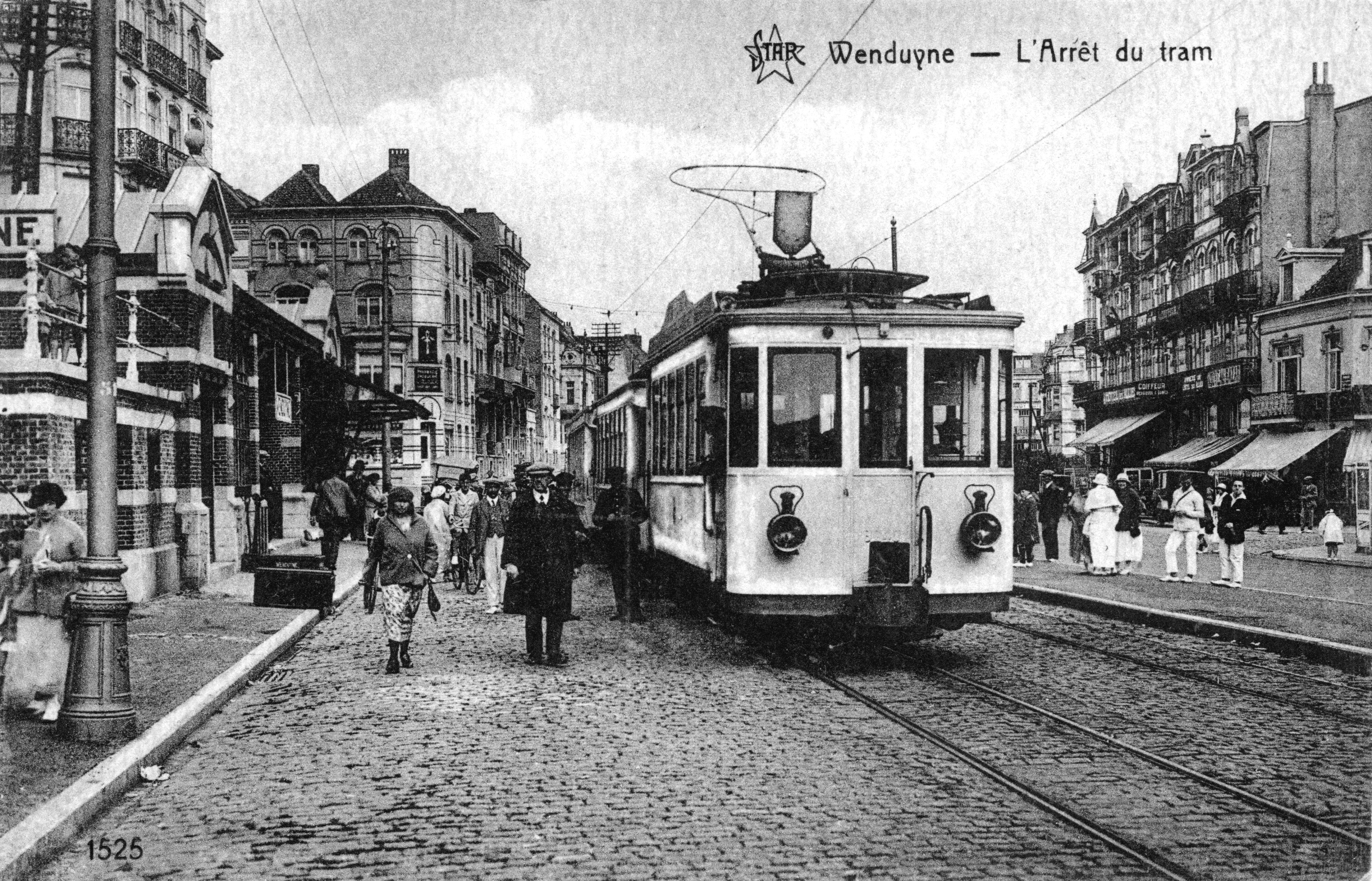 Typical OB(Ostend Blankenberge) four wheel motorcar with trailers in Wenduine. Probably in the 1920s.